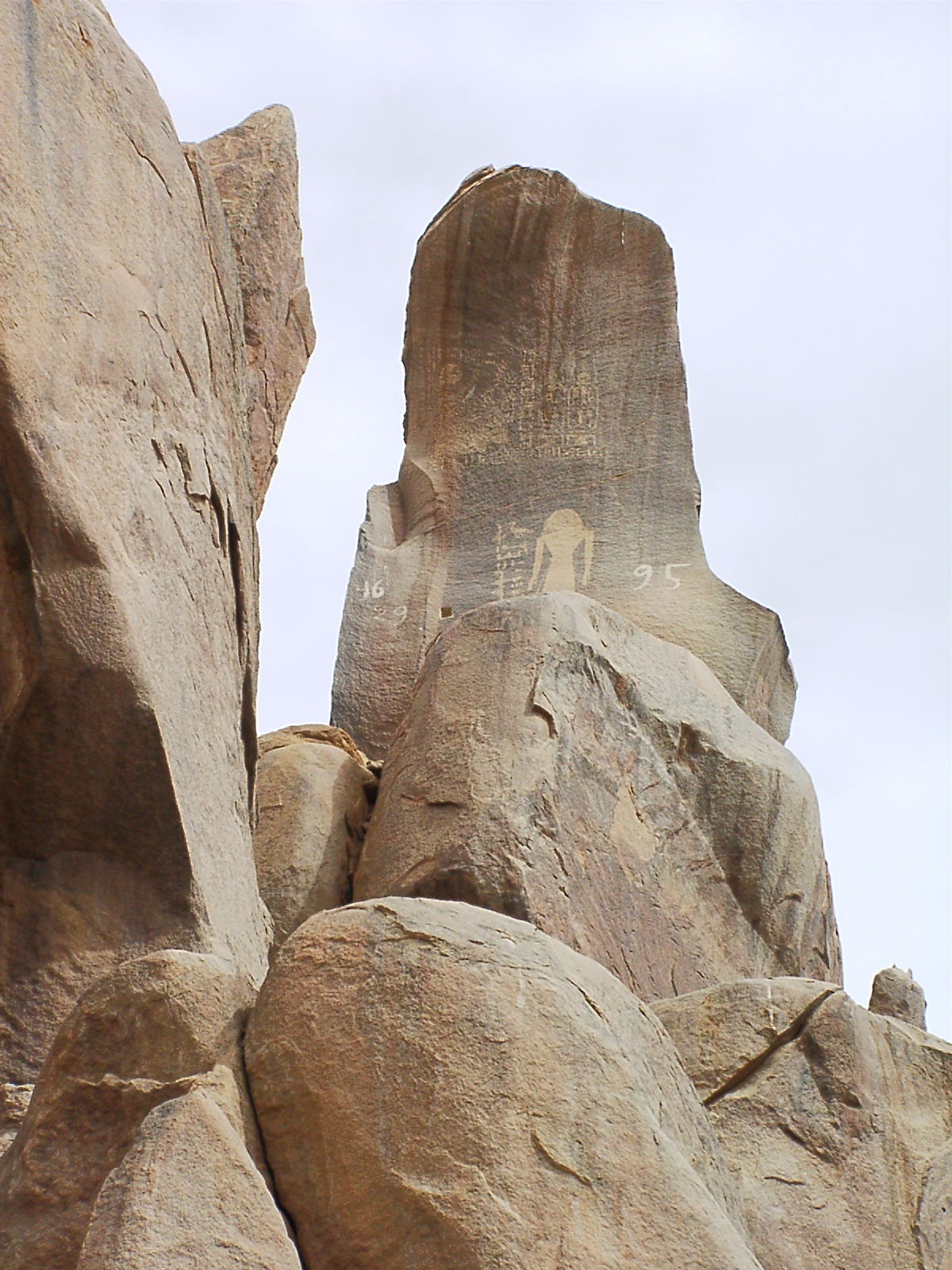 Inscriptions on a high cliff, hard to access, on Sehel Islands. It shows the viceroy of Kush Usersatet, in office under Amenhotep II This kind of inscriptions made the Sehel Island expeditions harder. Some of the carvings like that are not accessible without rope ladders or alpine techniques. Perhaps they are made for birds.